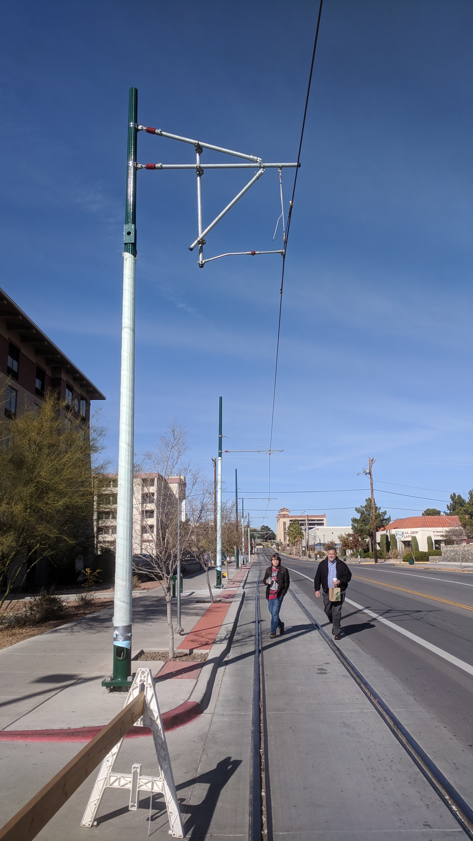 Overhead electric infrastructure and rails for the under-construction El Paso Streetcar system at the Univerity/Oregon stop, with pedestrians.